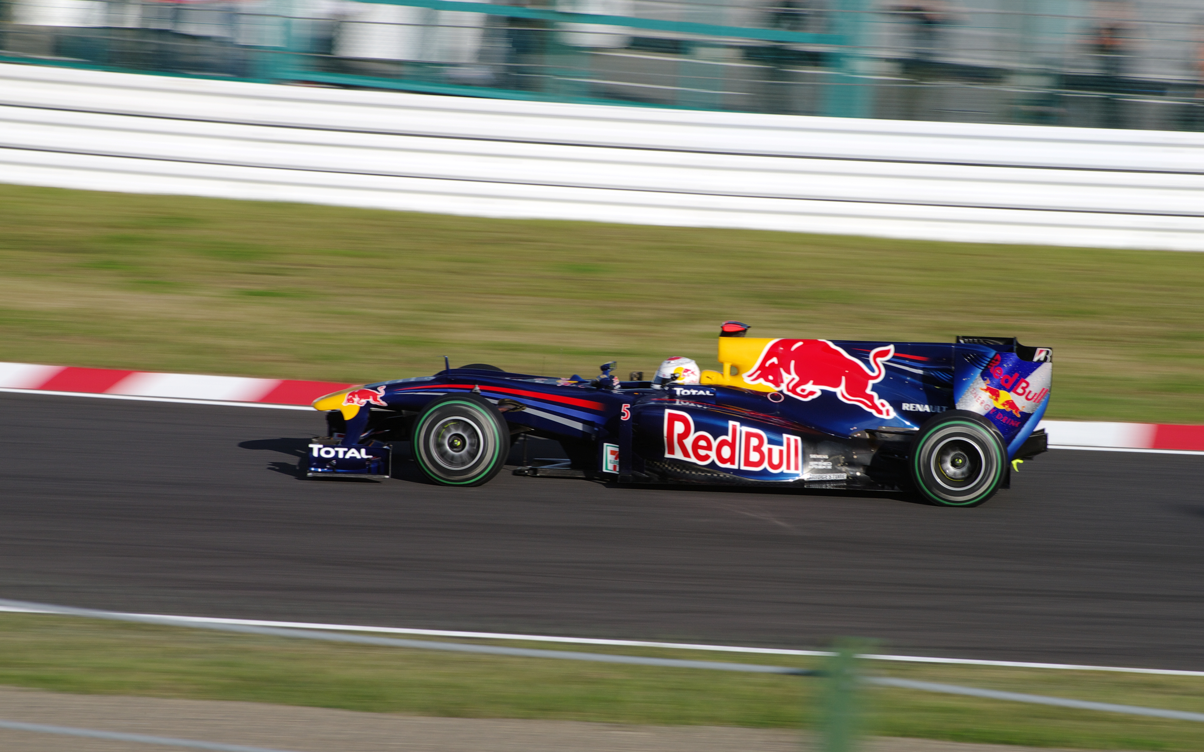 Red Bull RB6 driven by Sebastian Vettel at the 2010 F1 Japanese GP in Suzuka.